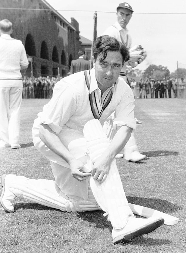 Ashes Test Series 1954-1955. Denis Compton and other MCC players practice at the nets in Adelaide, 29 October 1954. SMH Picture by Harry Martin